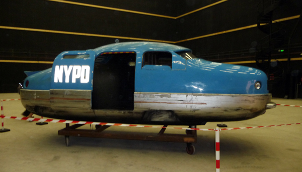 A car of NYPD on The Fifth Element by Luc Besson